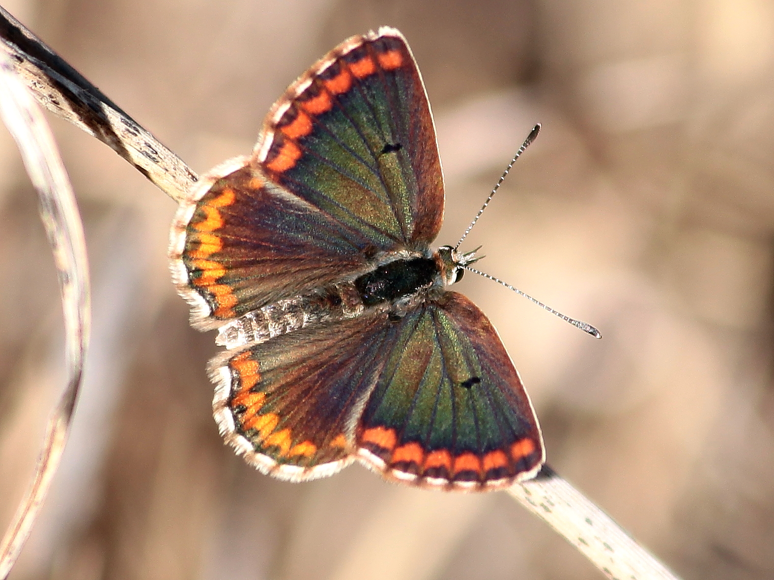 Southern Brown Argus